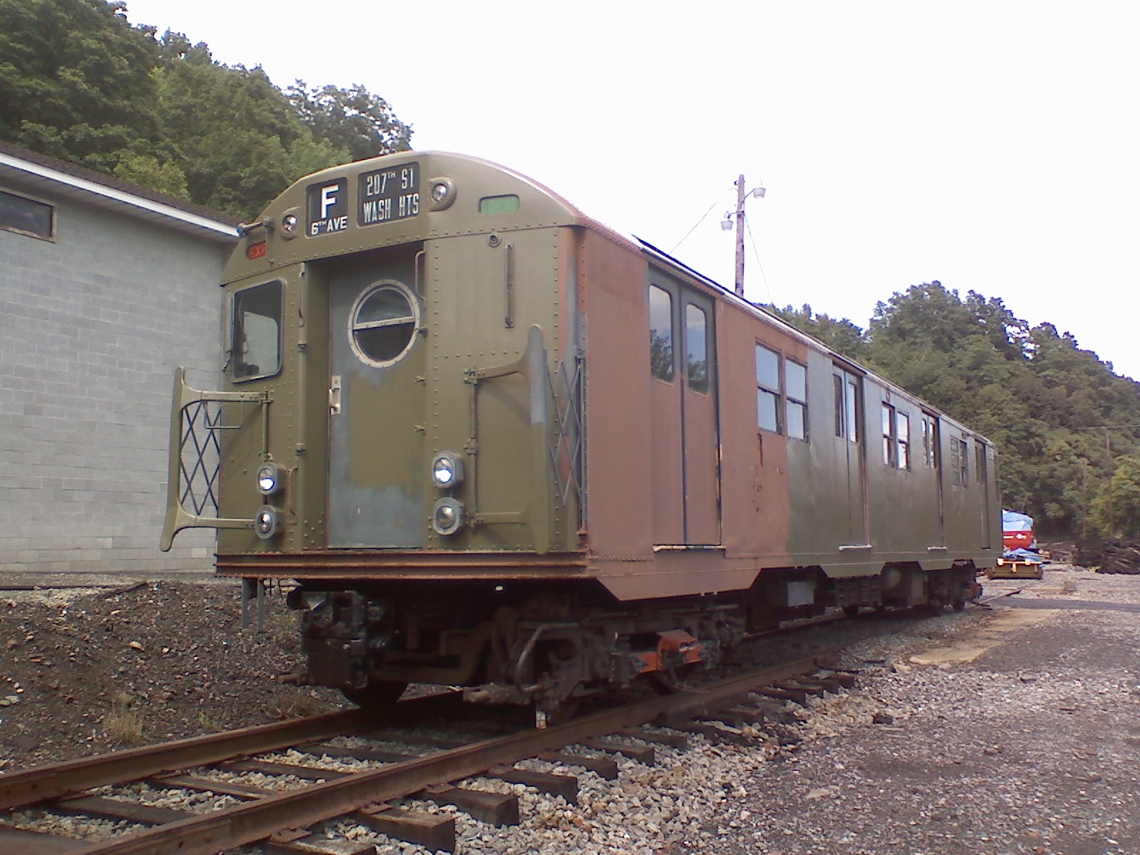 Kingston Tram Museum and Tram ride 16th August 2008